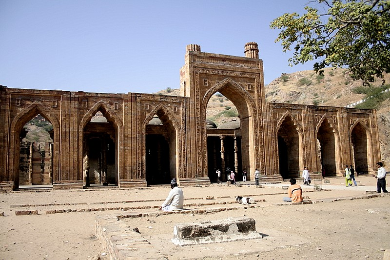 Adhai Din-ka-Jhonpra The Aḍhāī Din kā Jhonpṛā, a Jain temple constructed in 1153 and converted into a mosque by Quṭbuddīn Aybak after 1193, is situated on the lower slope of the Tārāgarh hill, additions were made to the mosque between 1220 and 1229 by Aikbak's successor, by Shams al-Din Iltutmish. It is also noted for its double-depth calligraphy inscriptions, in Naskh and Kufic scripts . With the exception of that part used as a mosque, called Jāma' Iltutmish (pronounced Altamish locally), nearly the whole of the ancient temple has fallen into ruins, but the relics are not excelled in beauty of architecture and sculpture by any remains of Hindu art. Forty columns support the roof, but no two are alike, and exceptional creativity is shown in the execution of the ornaments.[1]